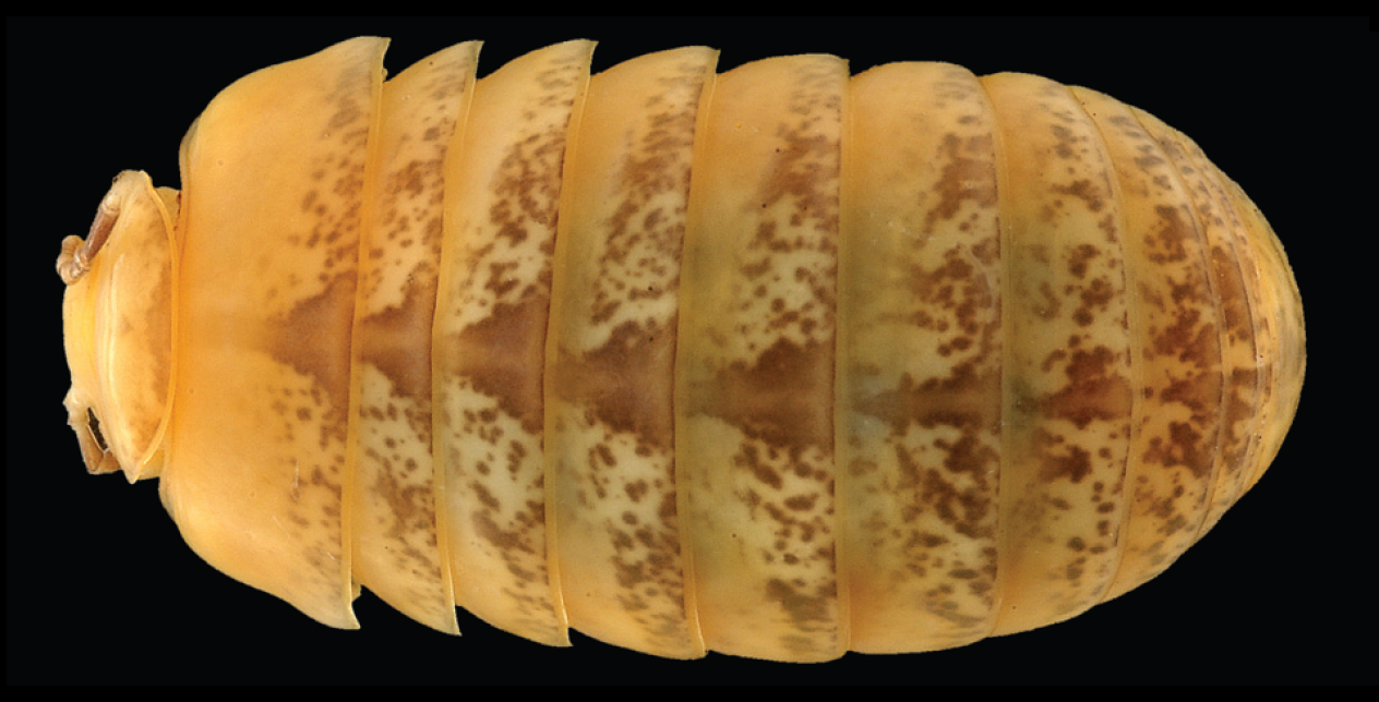 Glomeris klugii Brandt, 1833, ♀ from Tunisia, Aïn Draham area (ZMUC 200107); habitus, dorsal view.